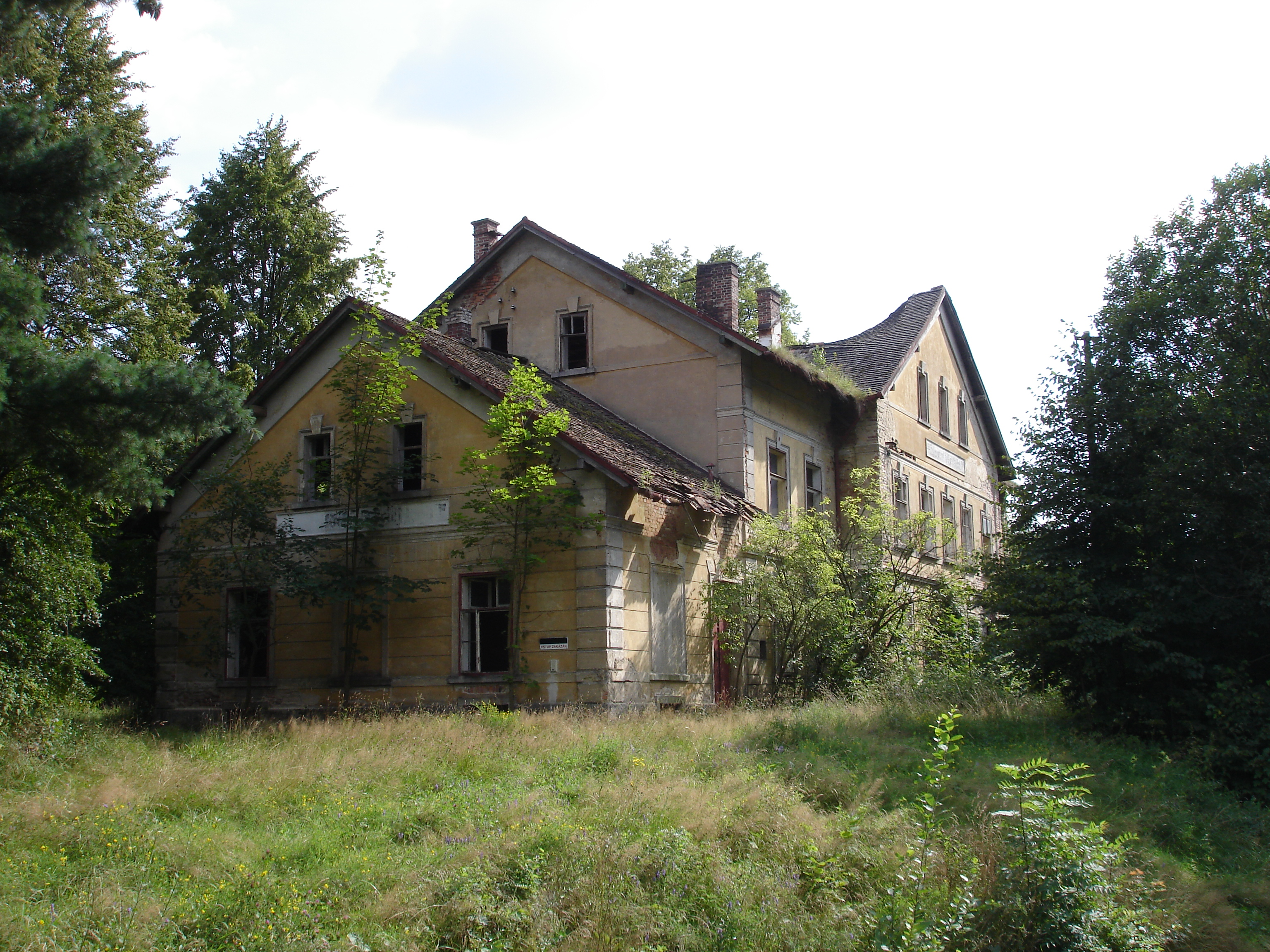 former border station of railway line Frýdlant–Heřmanice, Czech republic. In 2018 state organisation Správa železniční dopravní cesty transferred the ruin to Mikroregion Frýdlantsko (land register at Heřmanice (Liberec) č.p. 125, accessed 2018-05-02)